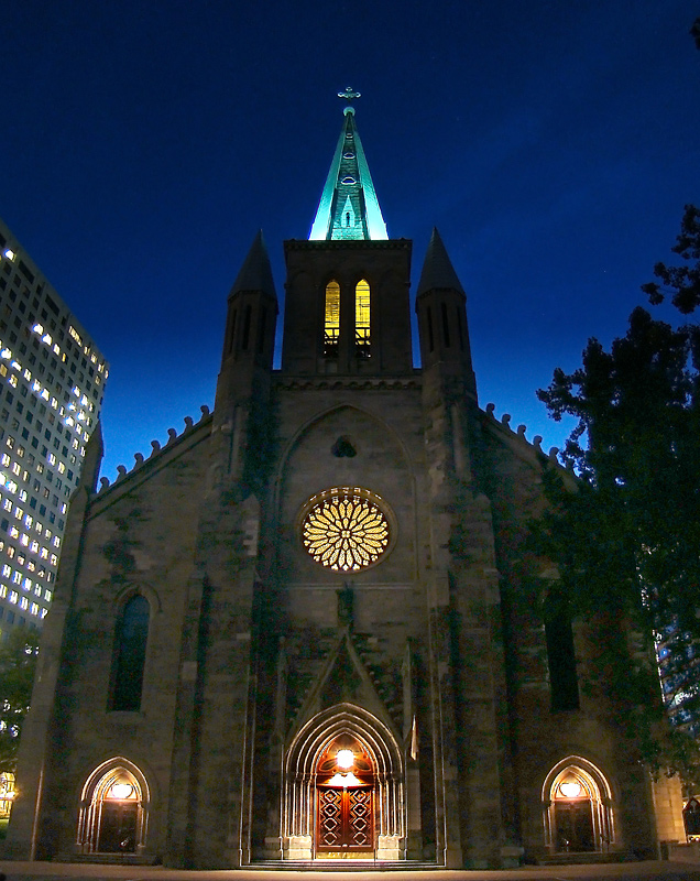 St.Patrick's Basilica, Montreal, Quebec, Canada.